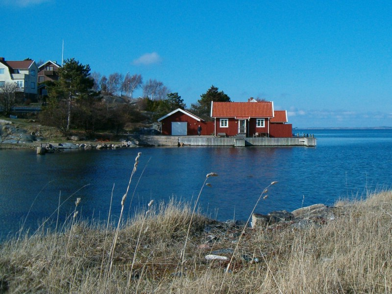 Landscape on Hälsö island, Öckerö Municipality, Sweden.